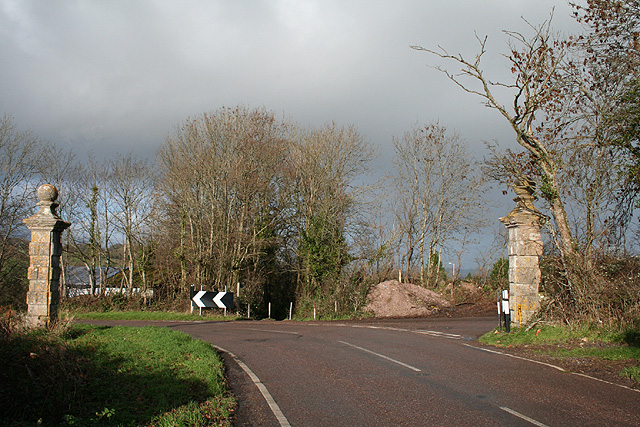 Shute: Stone gateposts of New Shute House, marking the entrance to the Shute Estate, viewed here towards exit from Shute Estate. Behind the viewer the road continues about a mile through the village then meets the Elizabethan gatehouse of Old Shute House, past and through which about half a mile beyond Old Shute House is located New Shute House. Looking north-north-west on the road from Seaton and Colyton. A public footpath runs on ahead. The main road rounds the corner to join the A35 at Taunton Cross. On the right a lane leads to Shute Hill Farm; this was once a Roman road linking the Fosse Way with Exeter. The gateposts – together with the Roman road – mark the parish boundary